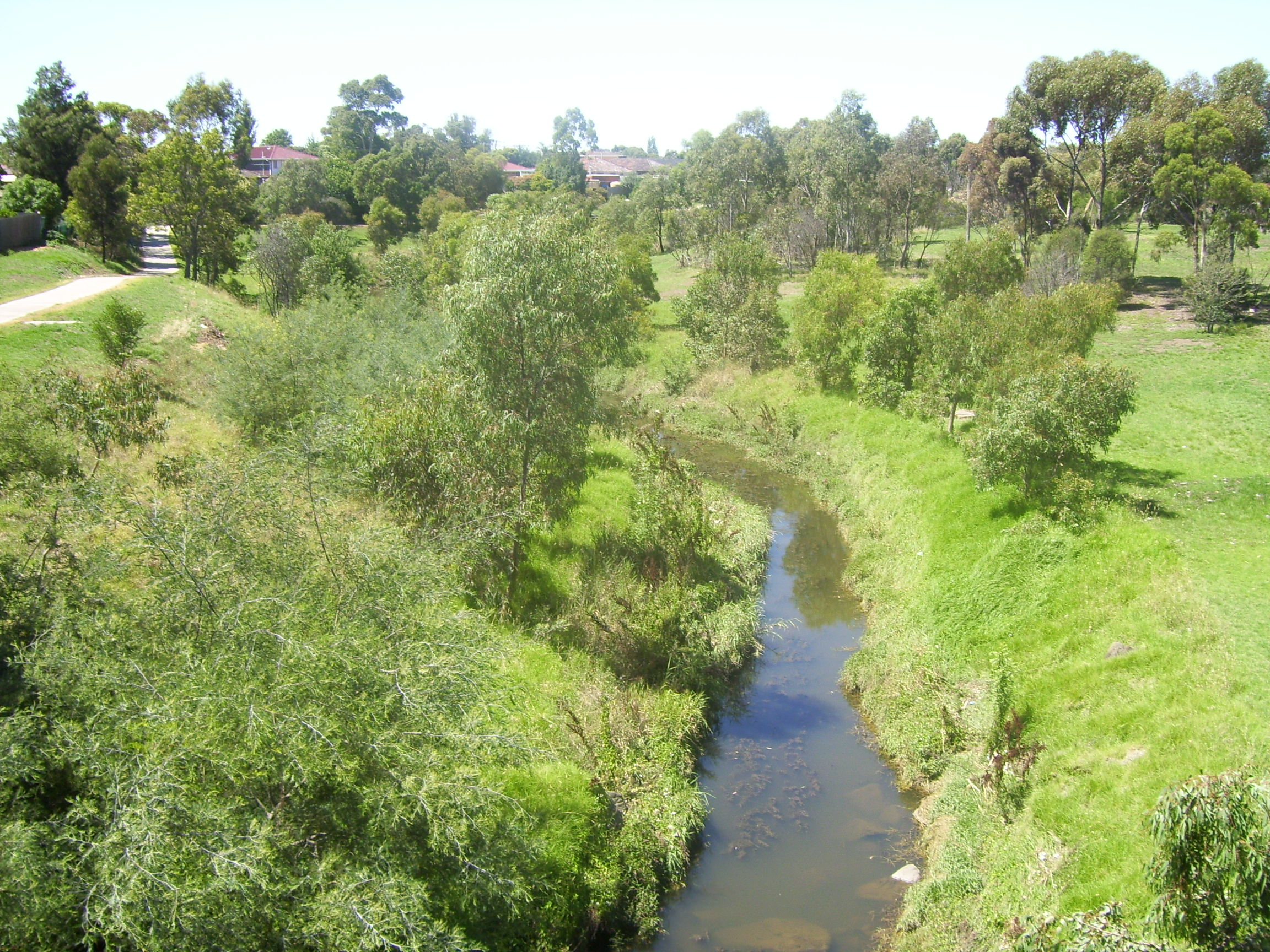 Kororoit Creek pic1